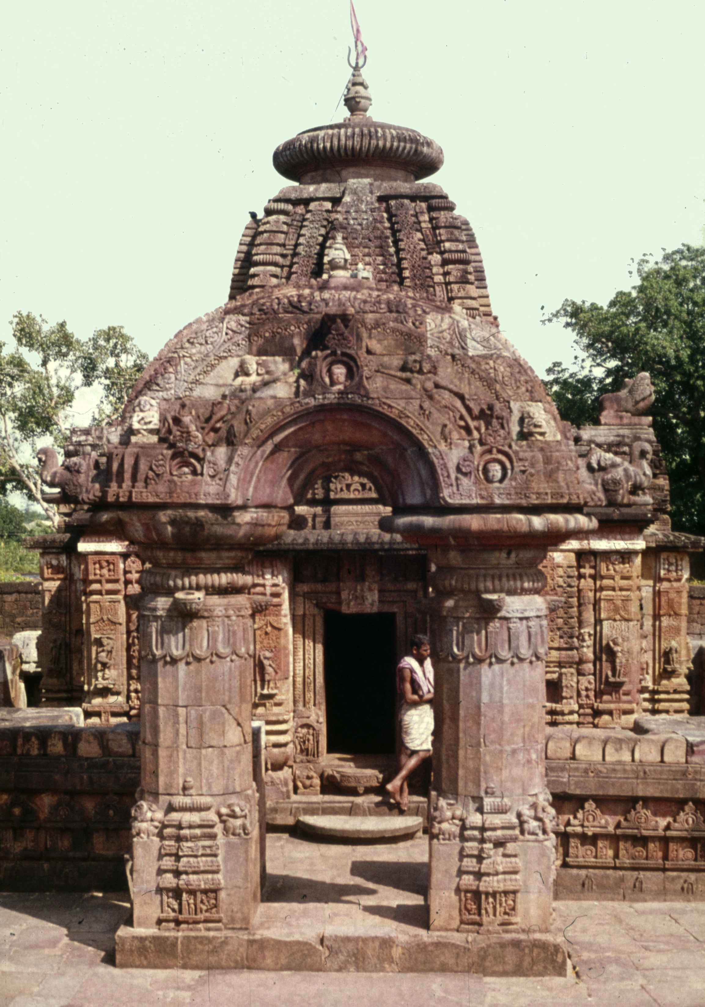 Mukteshvara Temple in Bhubaneswar in India 1976